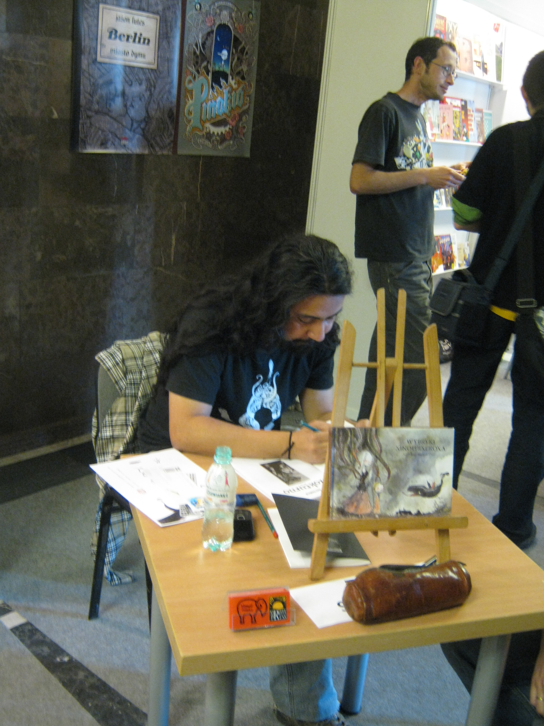 Tony Sandoval signs his comic book during the Comics Warsaw Festival in Poland, May 2011